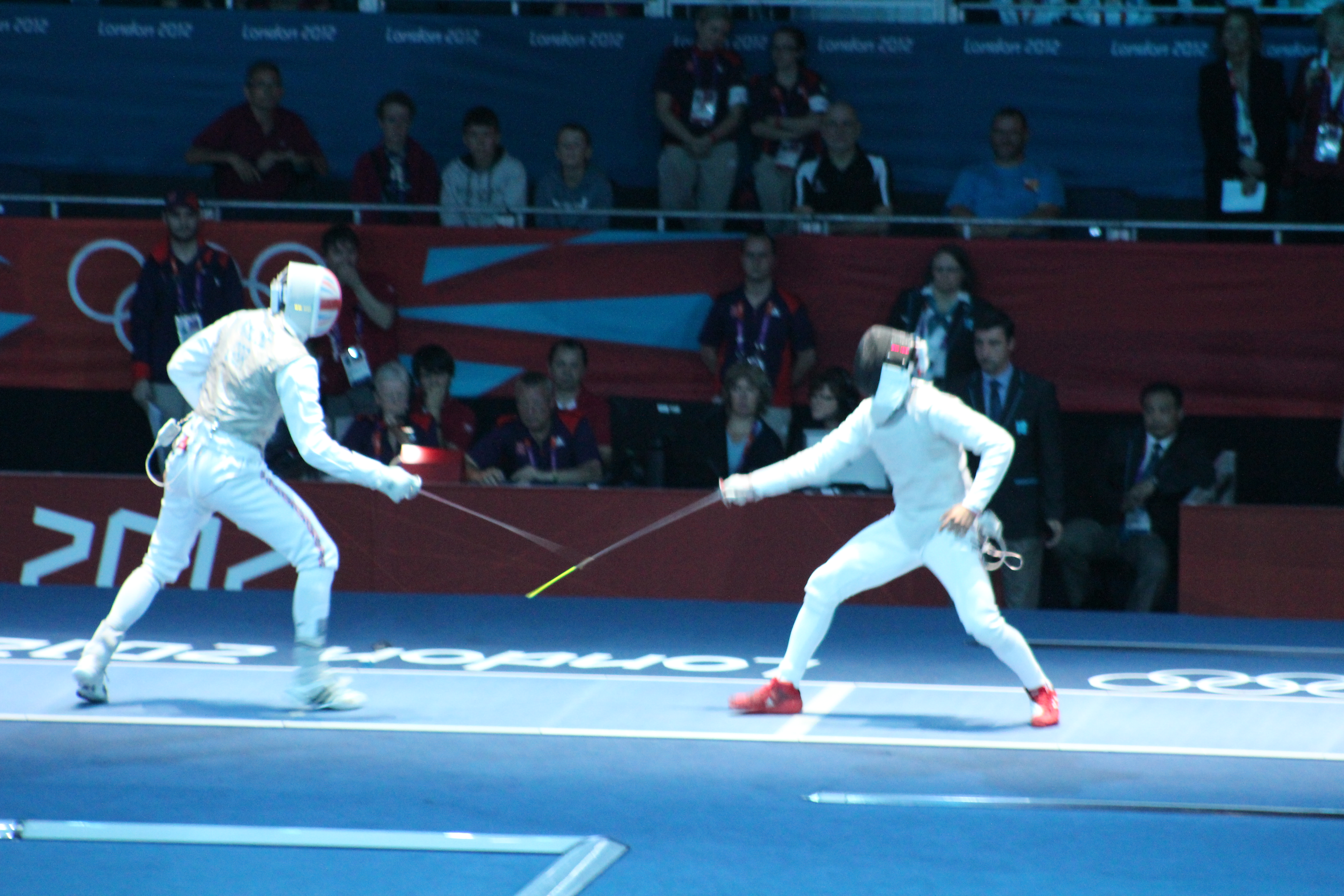 London Olympics 2012. Fencing (Men's Team foil). Also some shots of the area around the Excel centre and the view from the Emirates Air Line cable car